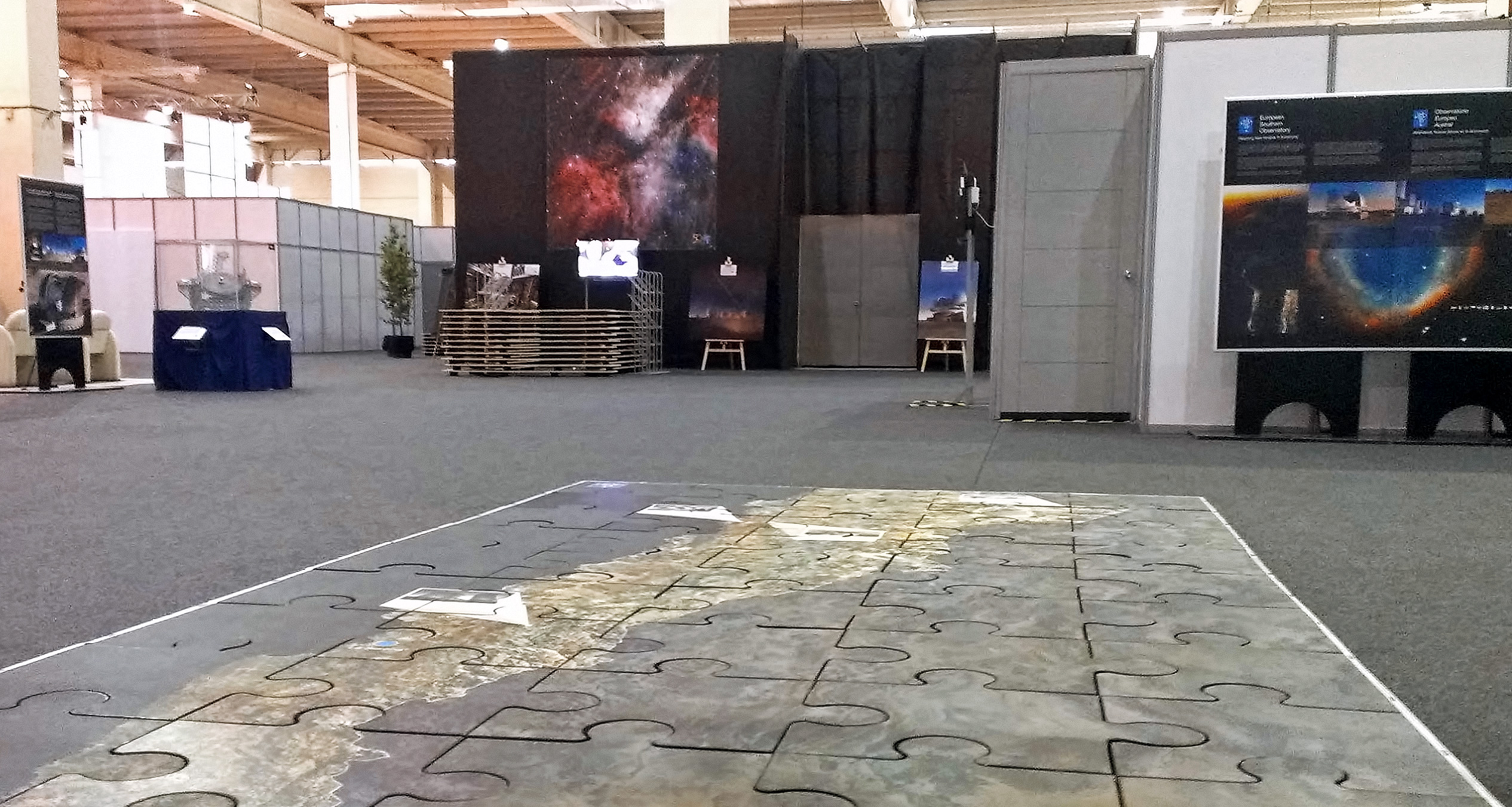 The ESO exhibition area at the Summit of the Community of Latin American and Caribbean States (CELAC) and the European Union, shortly before the opening of the event. ESO was specially invited by the Chilean Government to take part in the summit as a major exhibitor. The summit is the largest such event ever organised in Chile, and takes place from 22–27 January in Santiago, Chile.